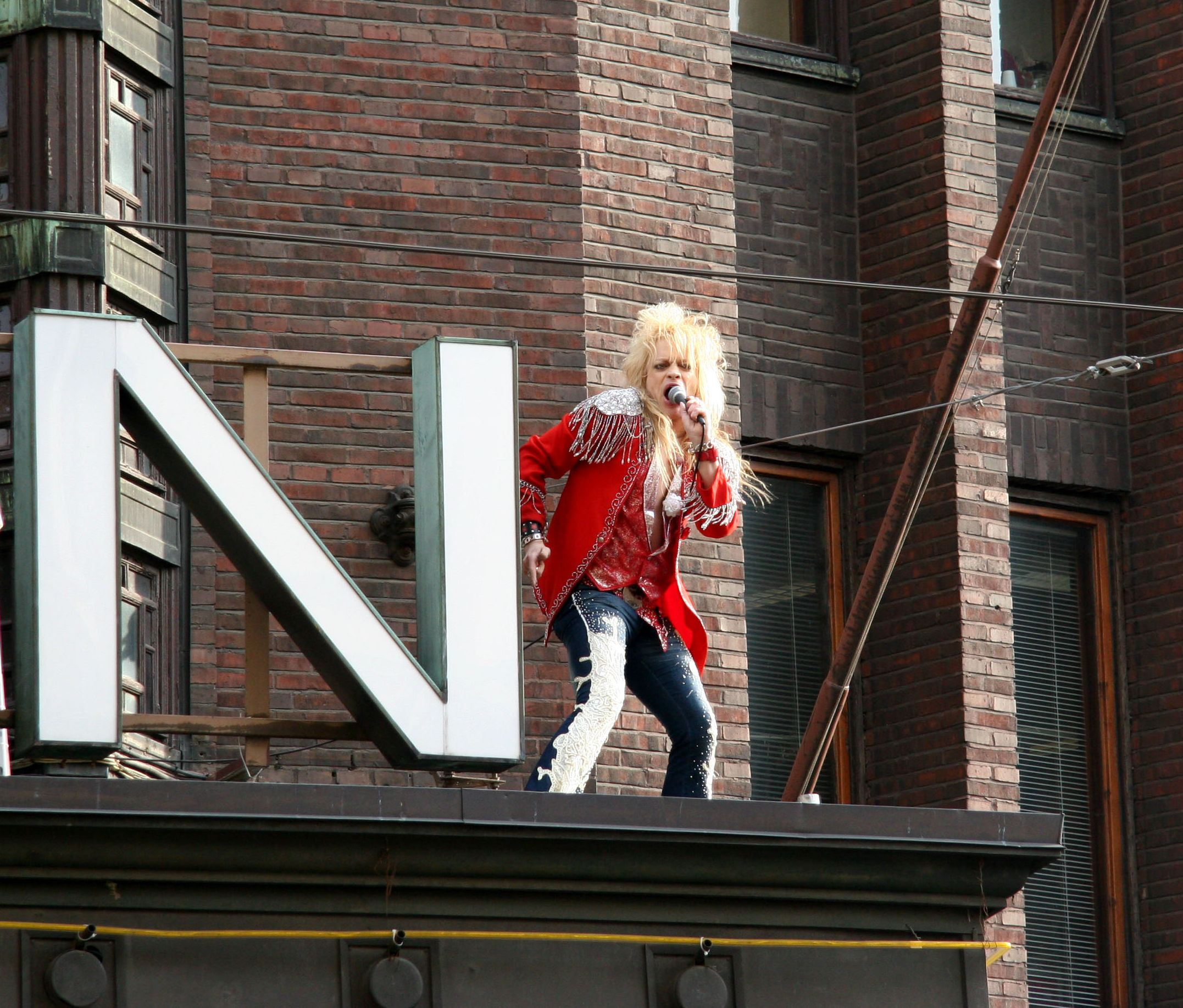 Michael Monroe of Hanoi Rocks performing at the STOCKMANN building , Helsinki, April 15, 2005